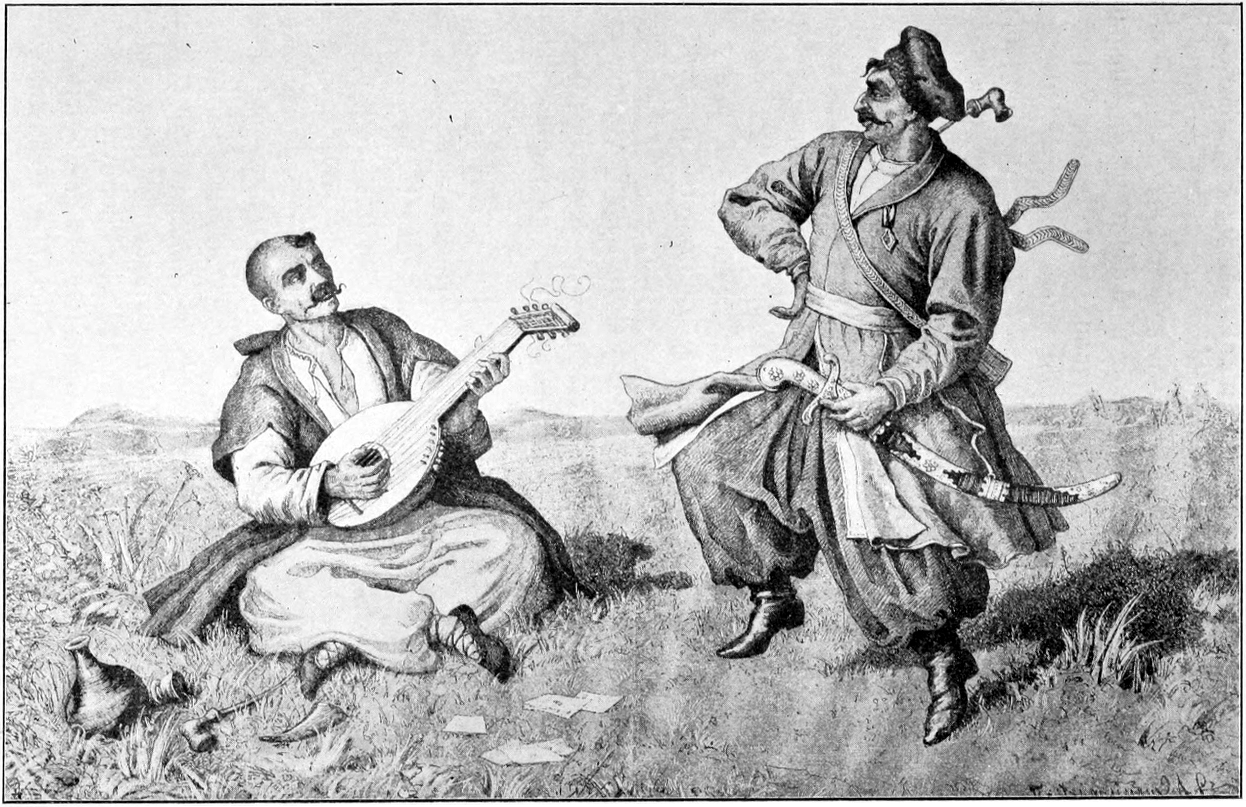 "Cossacks' lesure" Lithography, Watercolor on paper by Tymofiy Kalynskyi reproduction in Alfred Jensens "Mazepa" (1909), page 15.